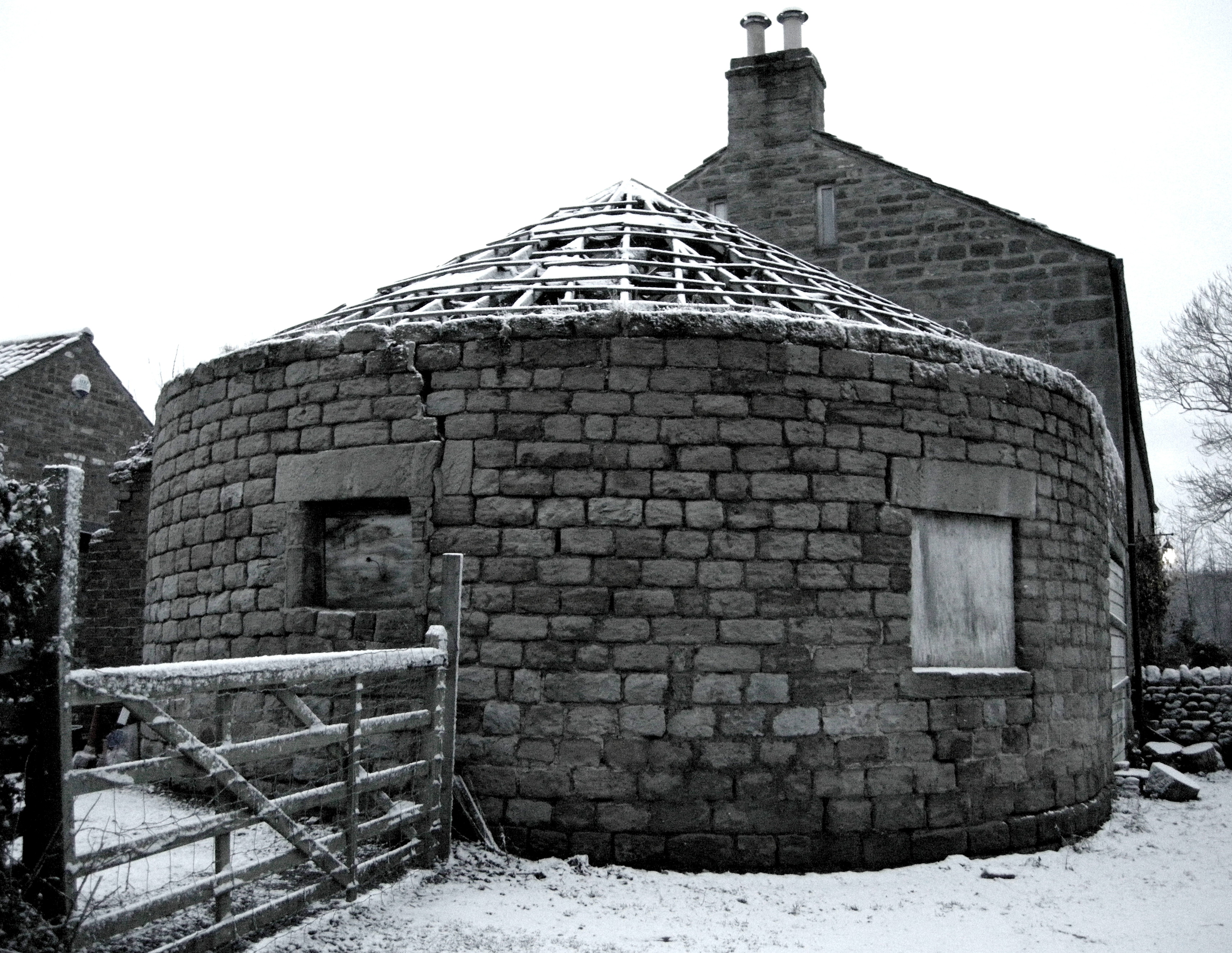 Wheelhouse, gin-gang or horse engine house, probably used for threshing. At the old Hudson's barn (now Willow Farm), at Burn Bridge, near Harrogate, North Yorkshire, England. This gin gang was demolished as of November 2010, due to disrepair.